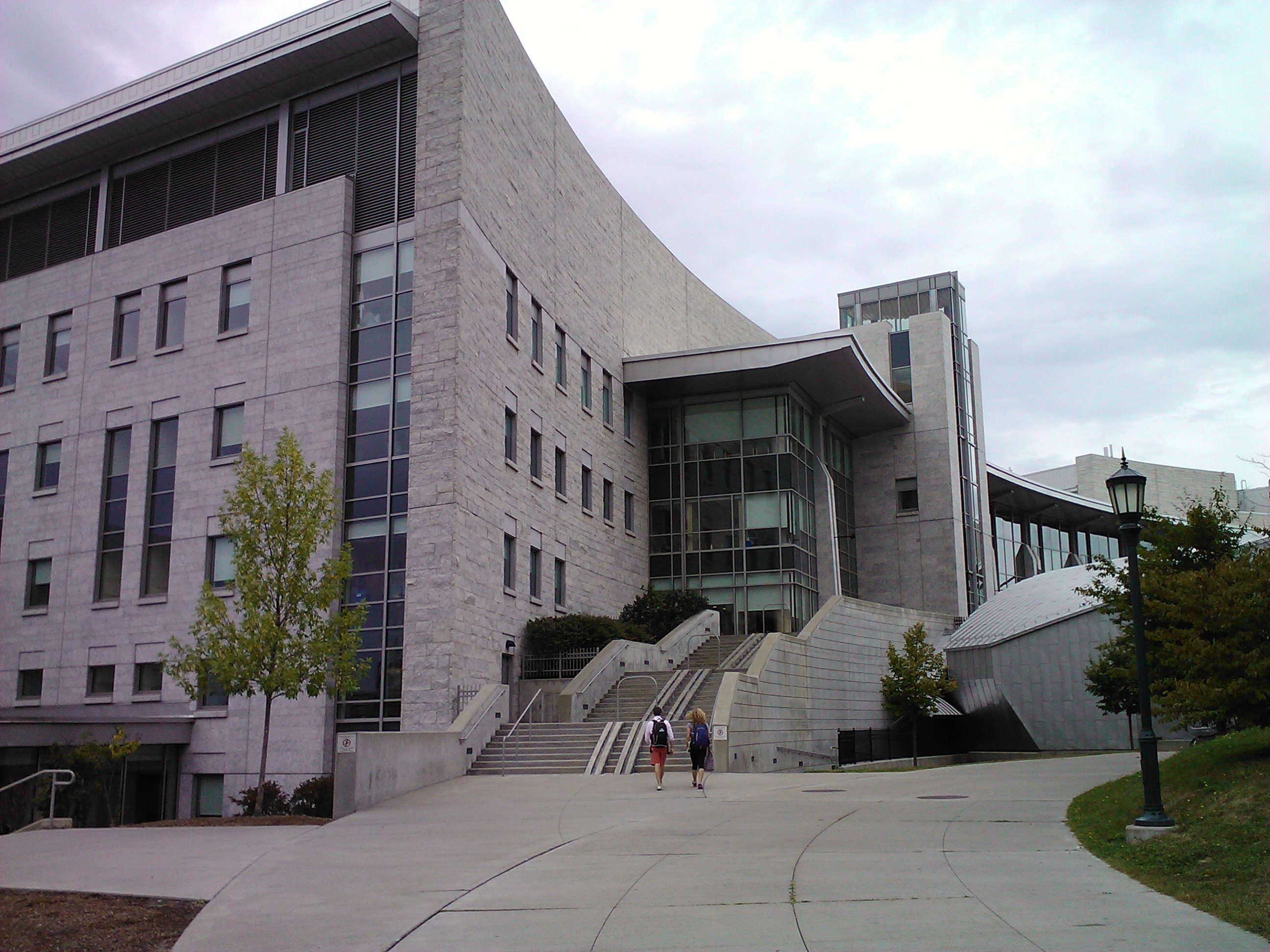 stairs to the main entrance of Fletcher Allen Health Care in Burlington, VT